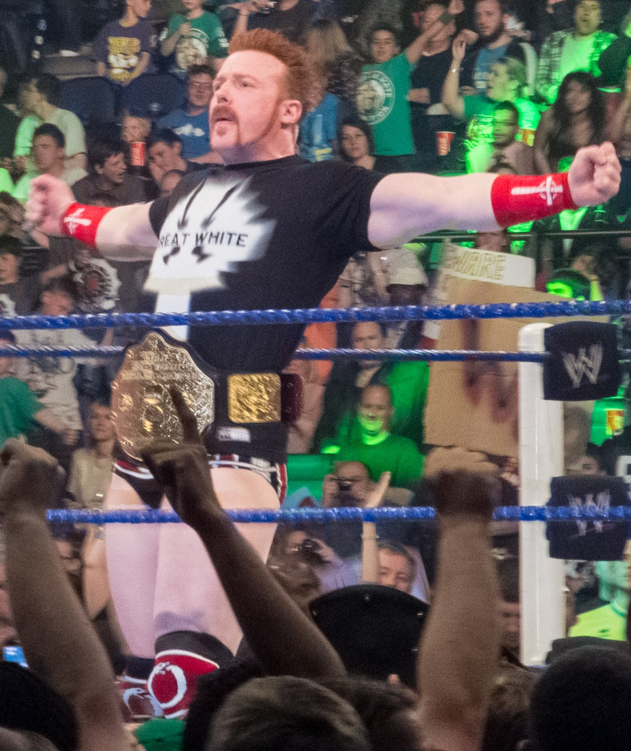 Sheamus posing with his World Heavyweight Championship at a WWE SmackDown taping in London, England on 17 April 2012.